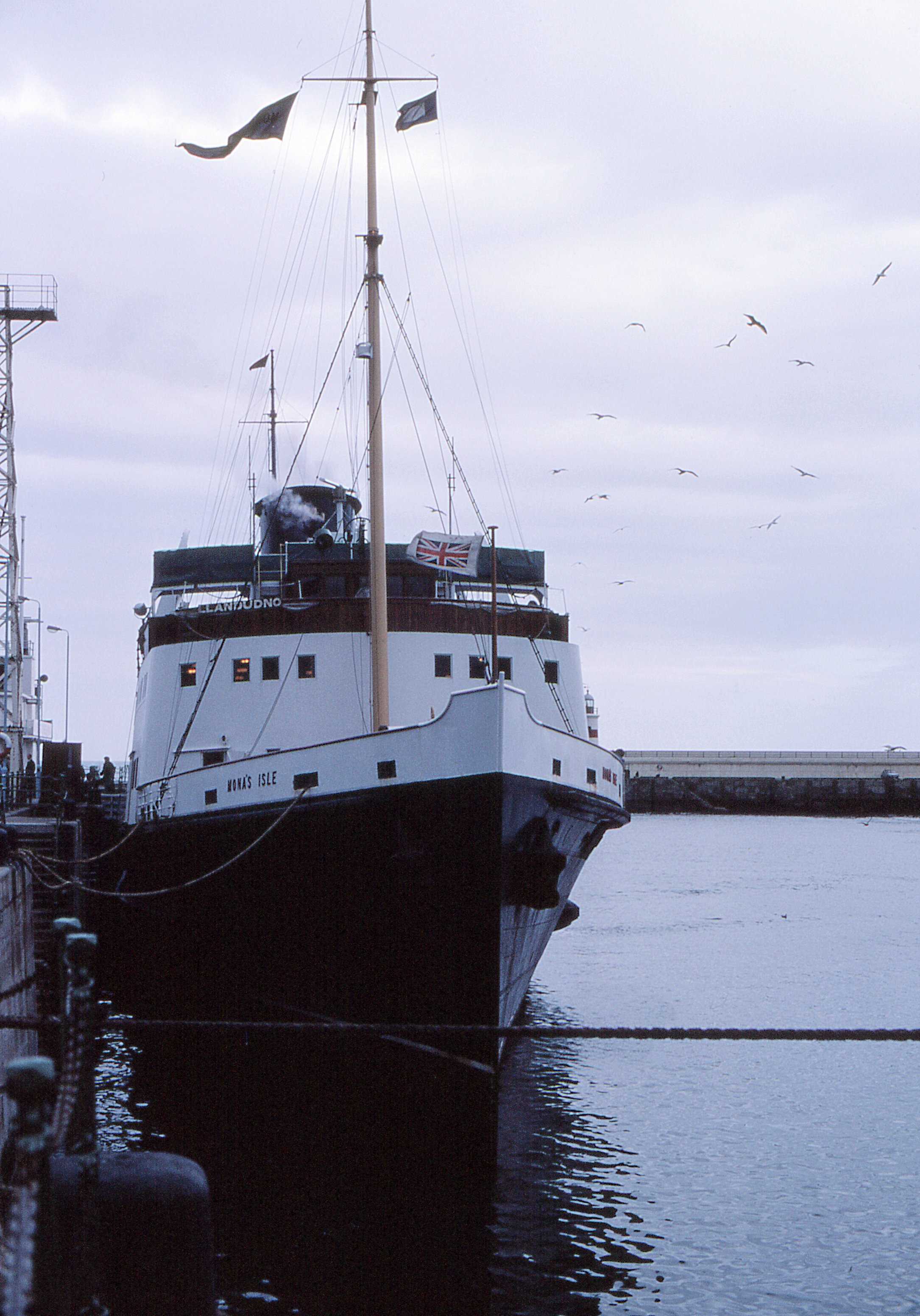 A late sailing for Llandudno awaits departure from Douglas Isle of Man. The ferry "Mona's Isle" does the honours. August 1980. Camera: Olympus OM1 35mm SLR. Film: Kodachrome.